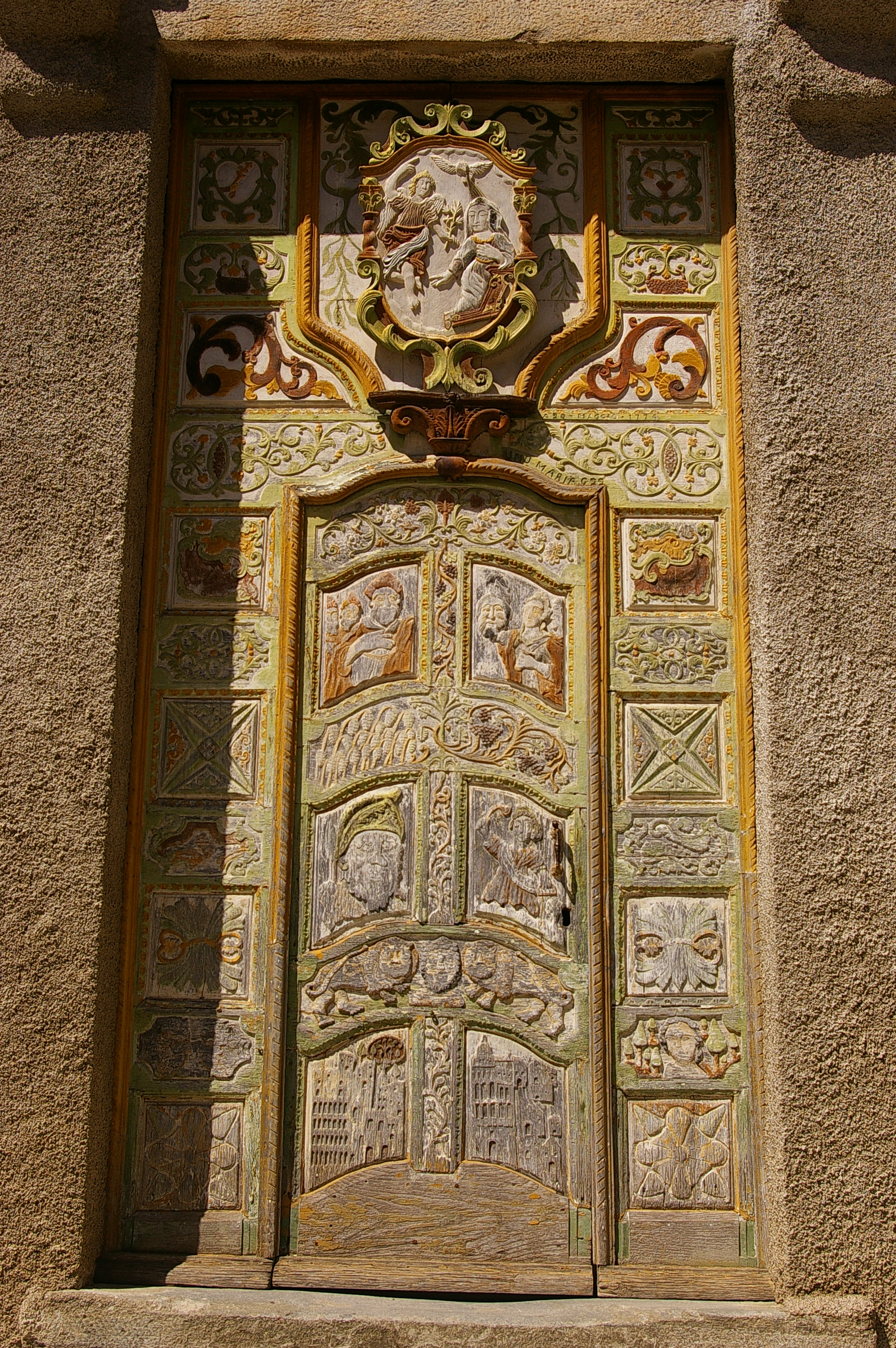 Door of the Annonciation Church in Piazzole